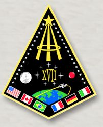 Astronaut Class of 1998 (Group 17) Patch.